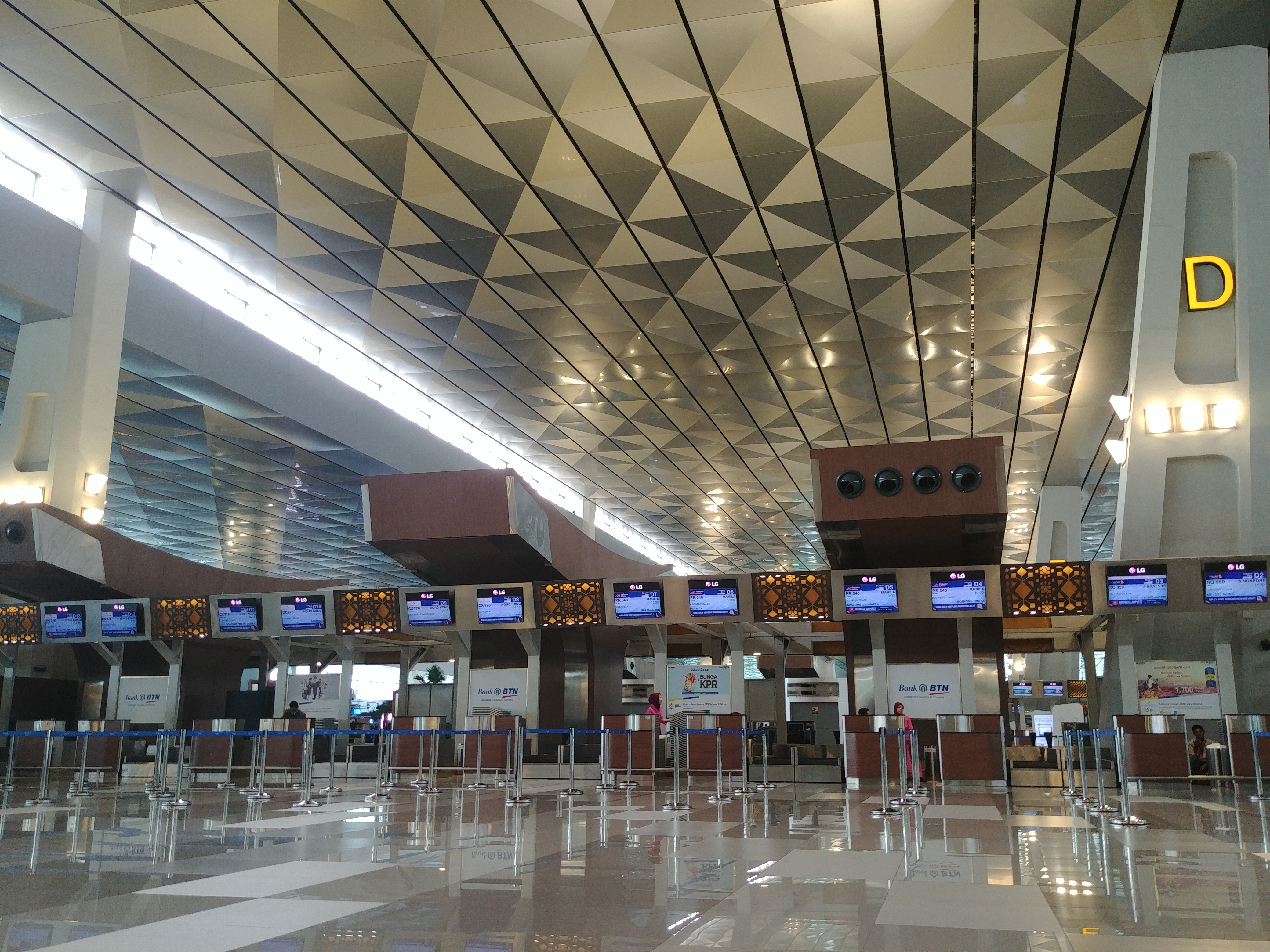 The ticketing kiosks at the Departure Area of the Soekarno-Hatta International Airport Terminal 3.